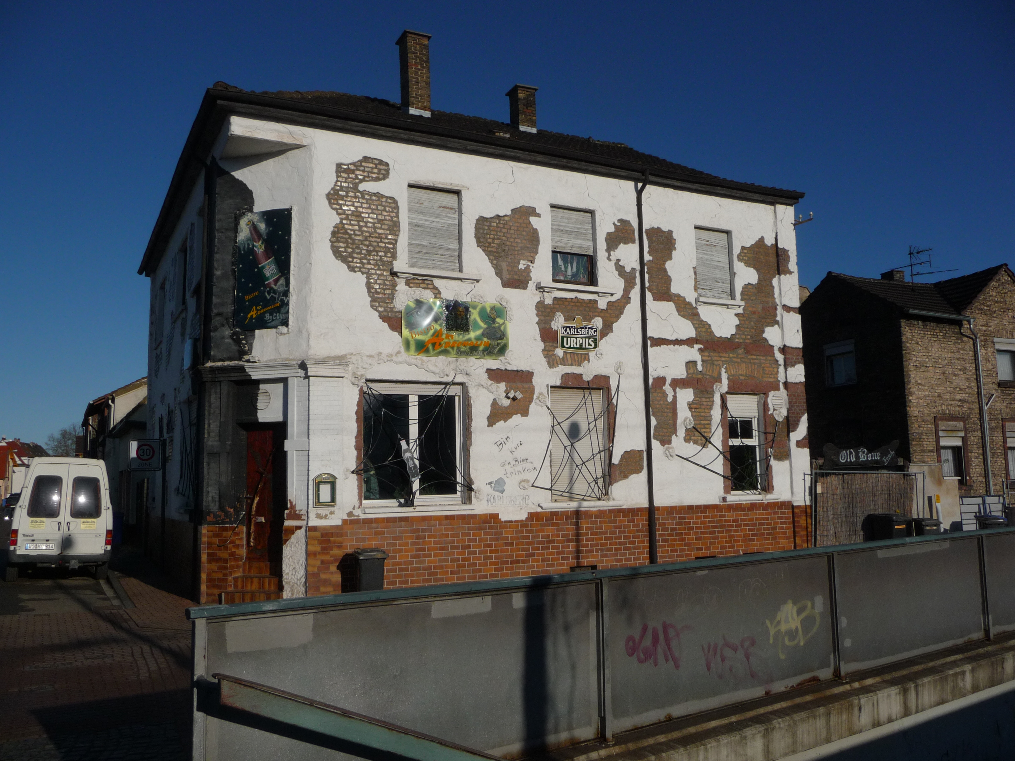 house in Ludwigshafen, Germany